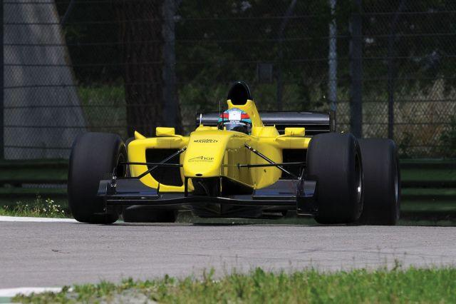 A1 GP powered by Ferrari race car. (A1 season 2008/2009)